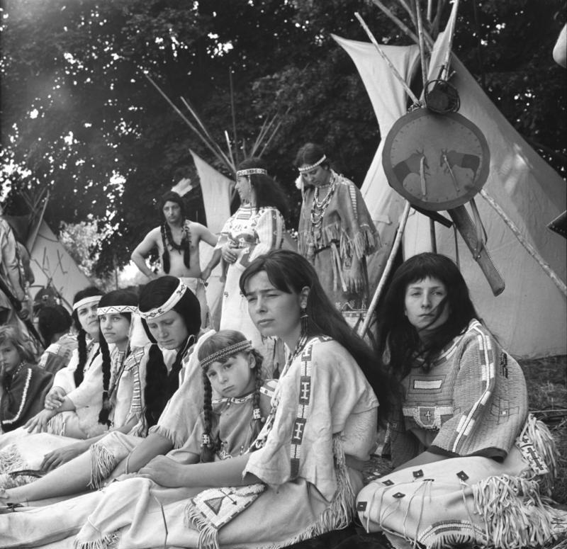 Zentralbild/Raphael/28/6/70/ 1970, District of Leipzig, city of Taucha 800 year anniversary festivity week: Leipzig counties still have some Indians, as this photo shows. These people are not immigrants, but consists of "Interessengemeinschaft Mandan-Indianer", an association founded 1958, which demonstrates dances and games at our city swimming pool. Citizens of all trades keep the old Indian traditions.